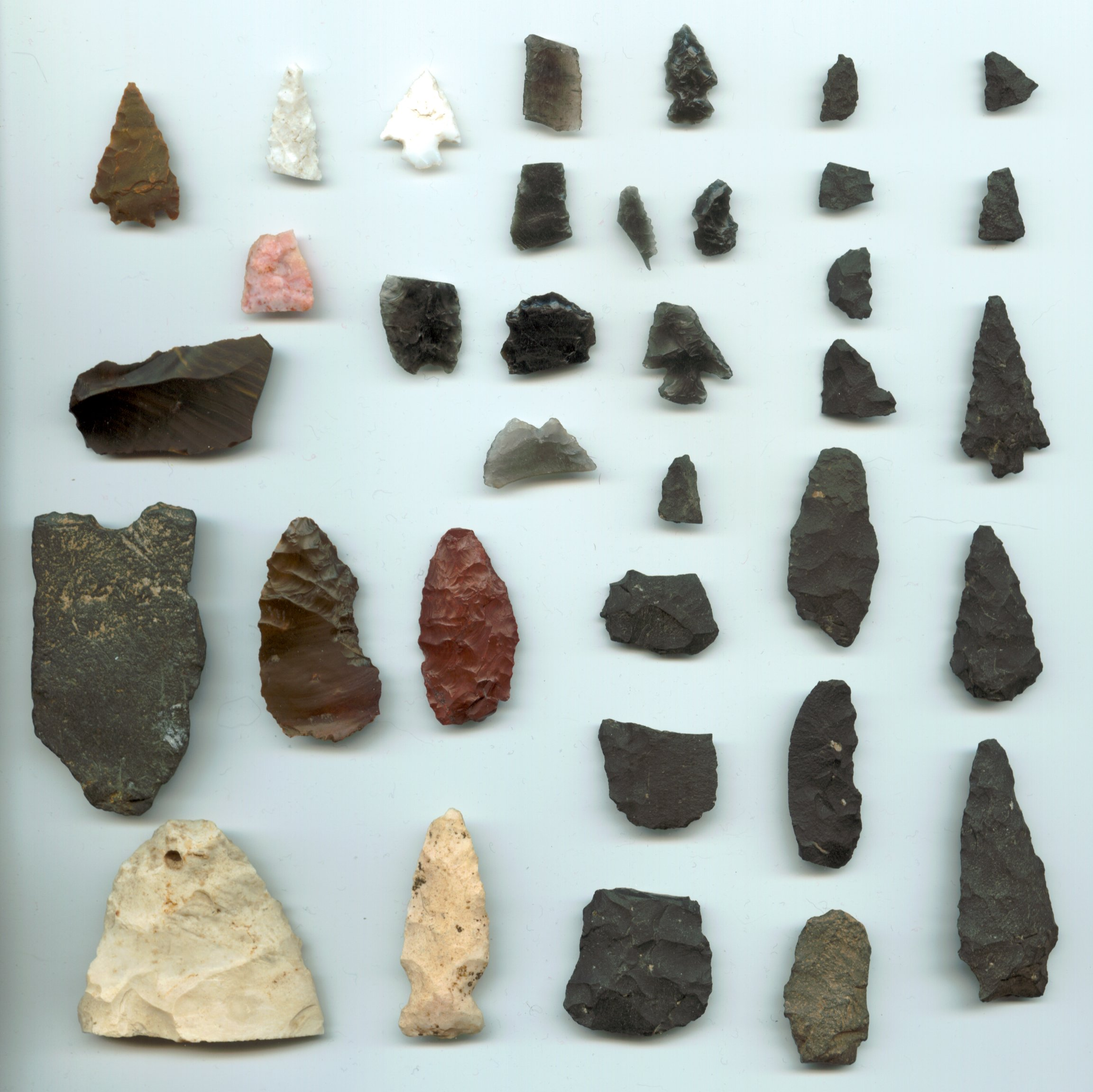 An assortment of Native American artifacts. The two white points on the bottom left were found in Illinois; all others were found in the Reno, Nevada area. See also: Image:Artifacts (back).jpg